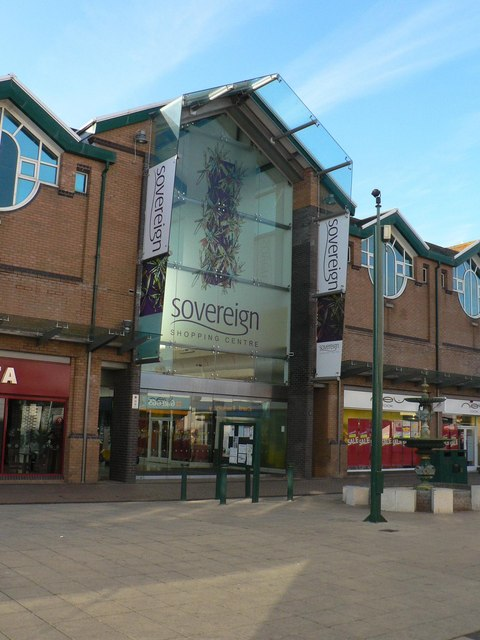 Boscombe: Sovereign Shopping Centre This is the main entrance of the Sovereign shopping centre, which was built around 1990. We are looking across the 881985.